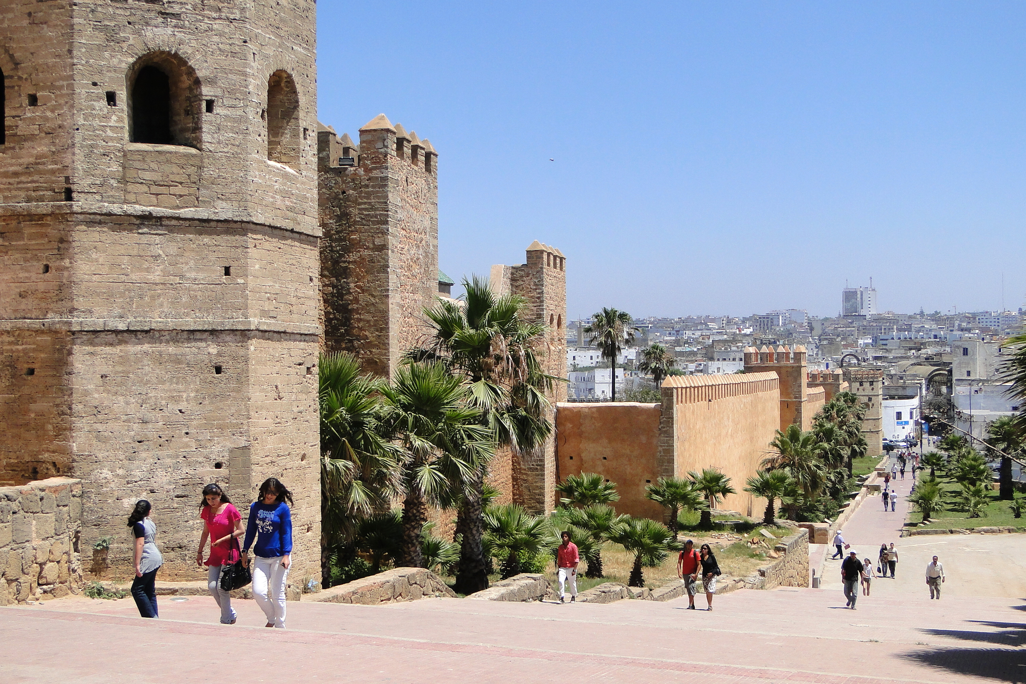 Pedestrians and Kasbah Walls - Rabat - Morocco